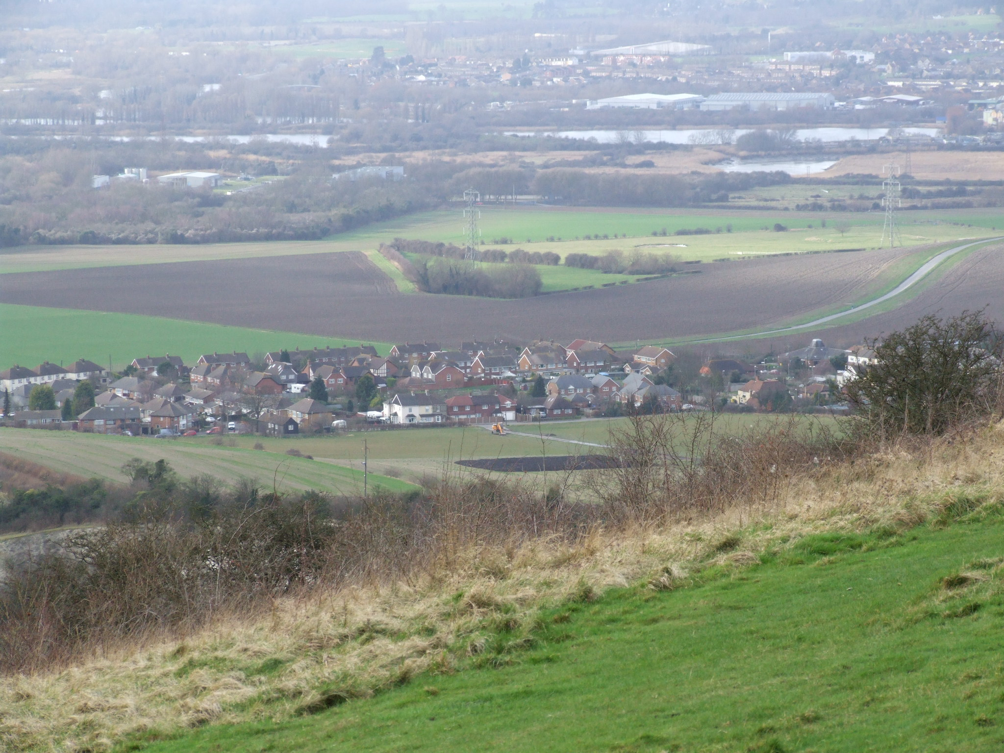 Blue Bell Hill Picnic site on the North Downs in Kent gives a view over the Medway Gap The village of Burham.